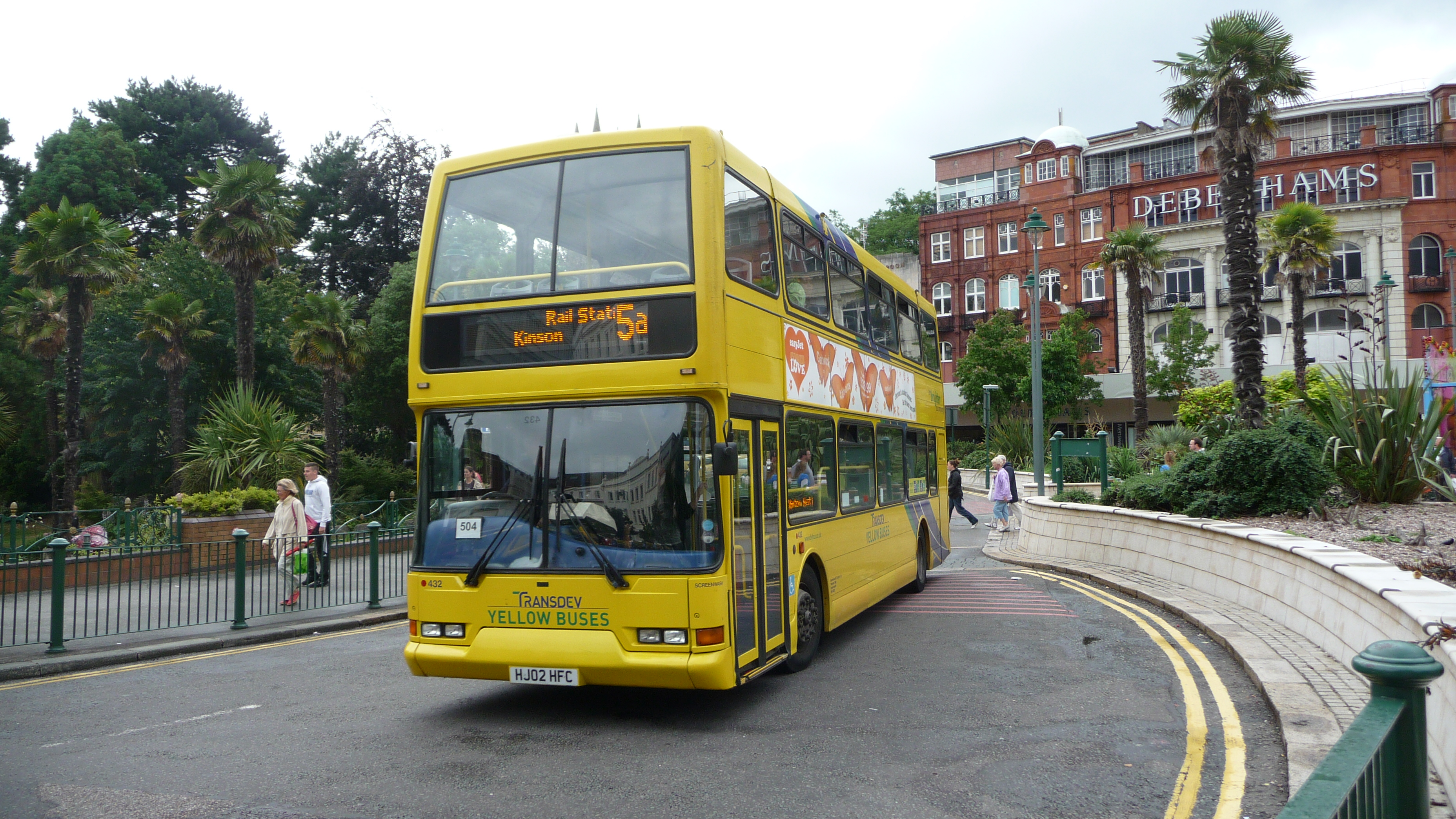 Transdev Yellow Buses 432 (HJ02 HFC), a Volvo B7TL/East Lancs Vyking, in Exeter Road, Bournemouth, Dorset, on route 5a.